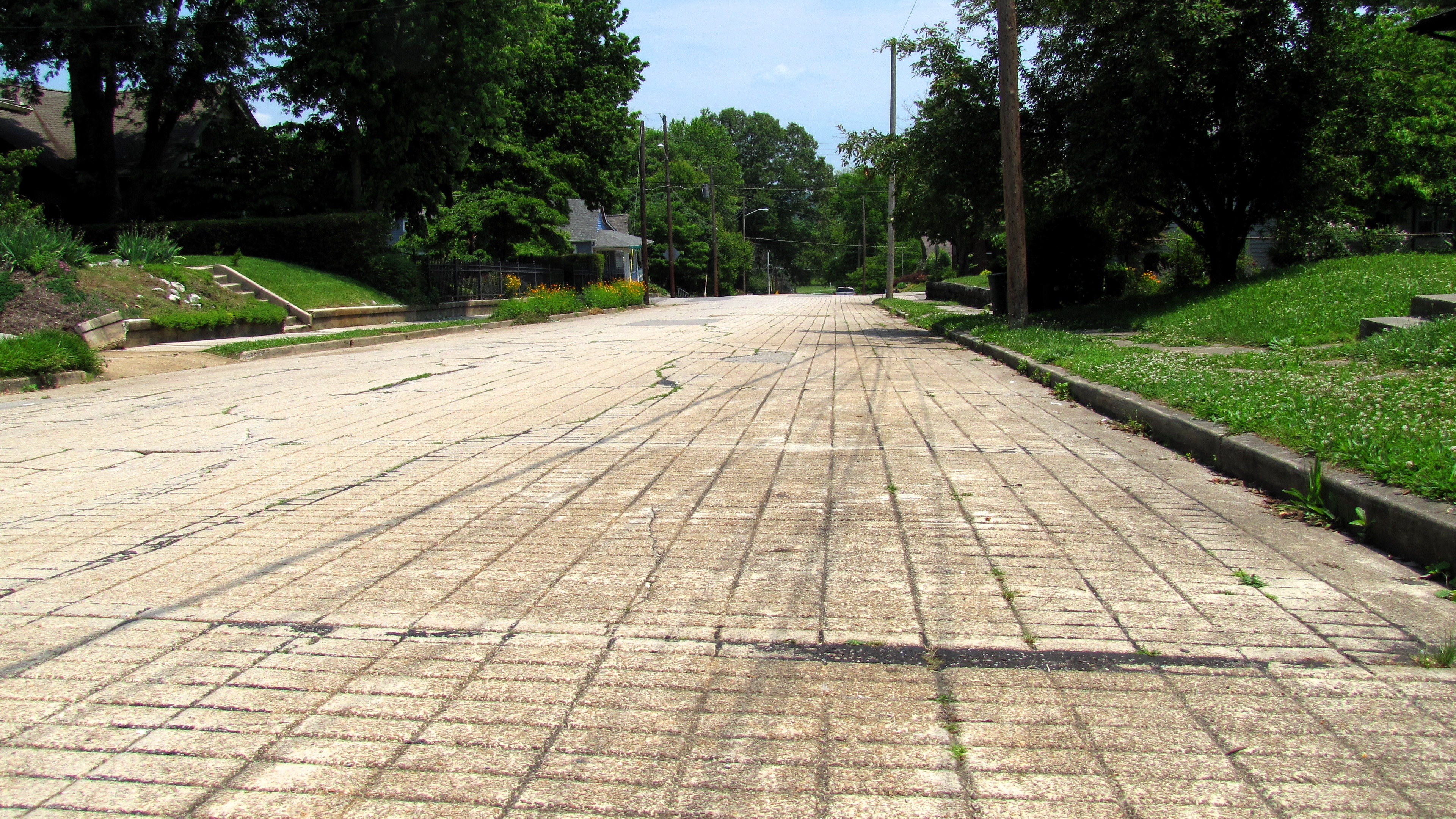 Circa-1907 Granitoid pavement along Kenyon Street in the Old North Knoxville Historic District of Knoxville, Tennessee, USA. Known locally as "singing" pavement due to the sound it makes when cars roll over it, this type of pavement was patented by the R. S. Blome Company of Chicago in 1907.